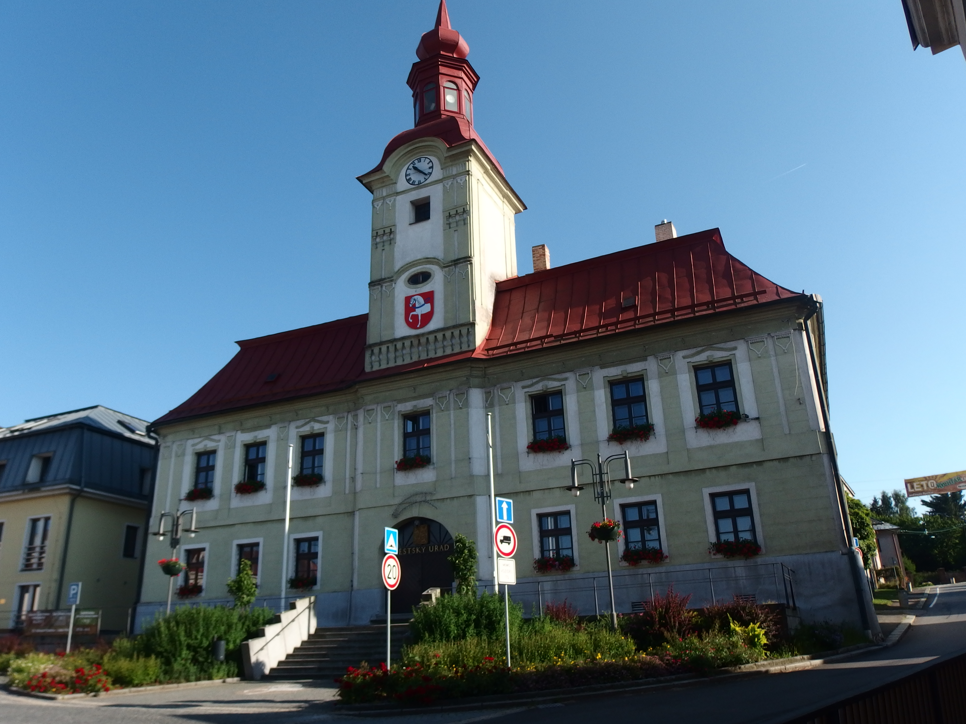 Hlinsko, Chrudim District, Czech Republic. Poděbradovo náměstí square, town hall.